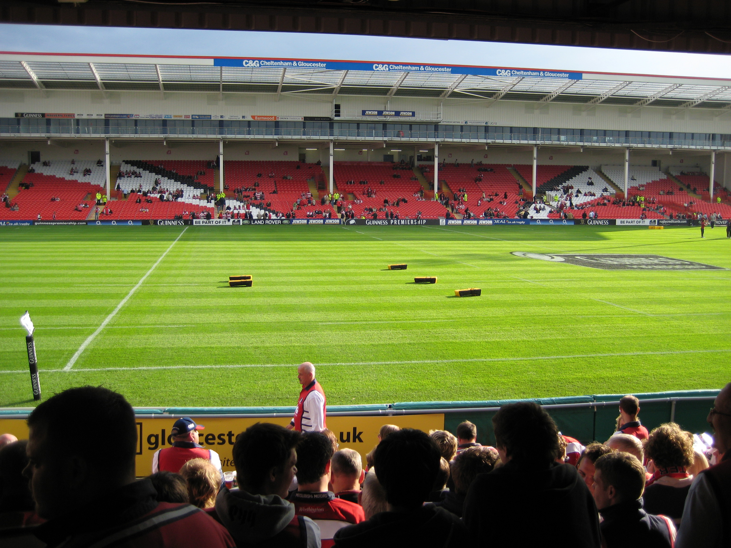 This is a picture of Kingsholm Stadium, home of Gloucester Rugby, on the 29th September 2007 at 16:43 prior to Gloucester Rugby versus Worcester Warriors. It was taken by Nicholas Mytton.